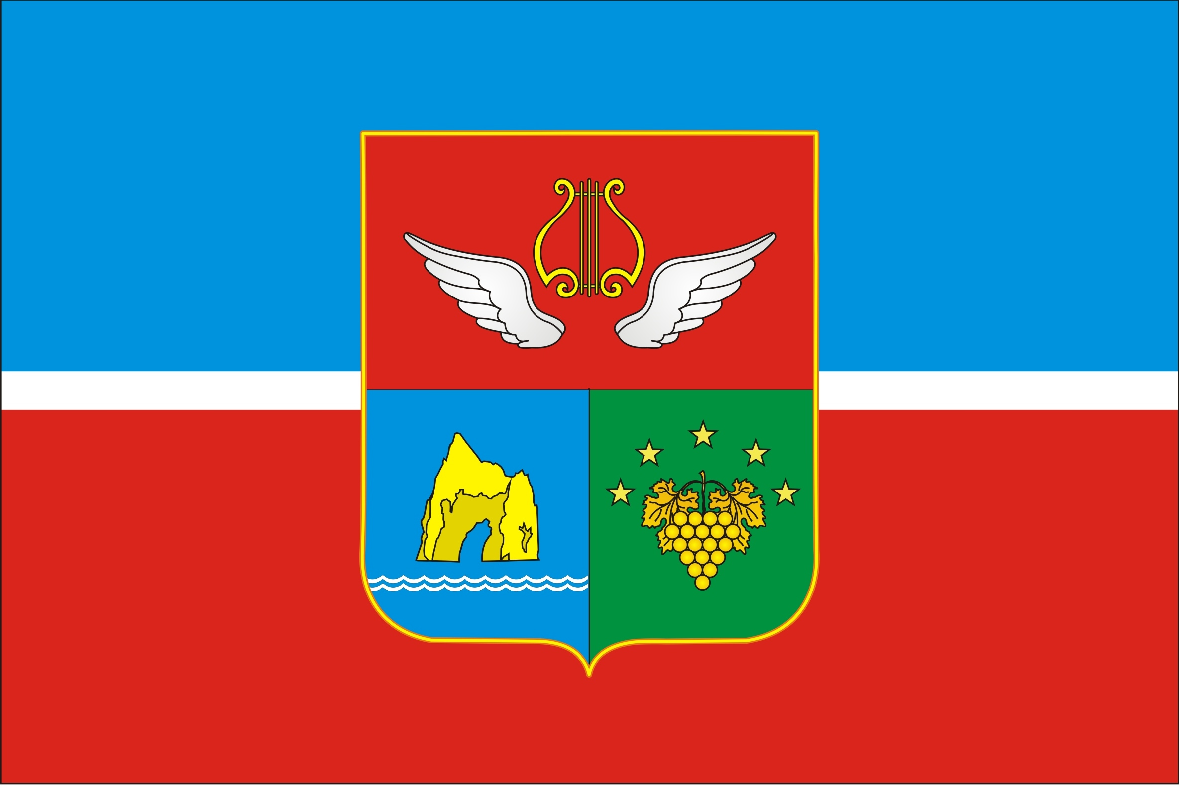 Flag Koktebel